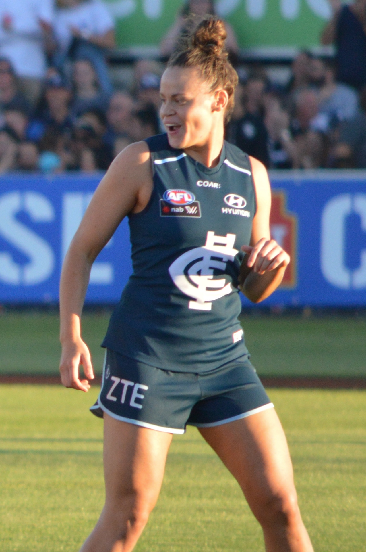 Sarah Last warming up prior to the Inaugural AFLW match between Carlton and Collingwood